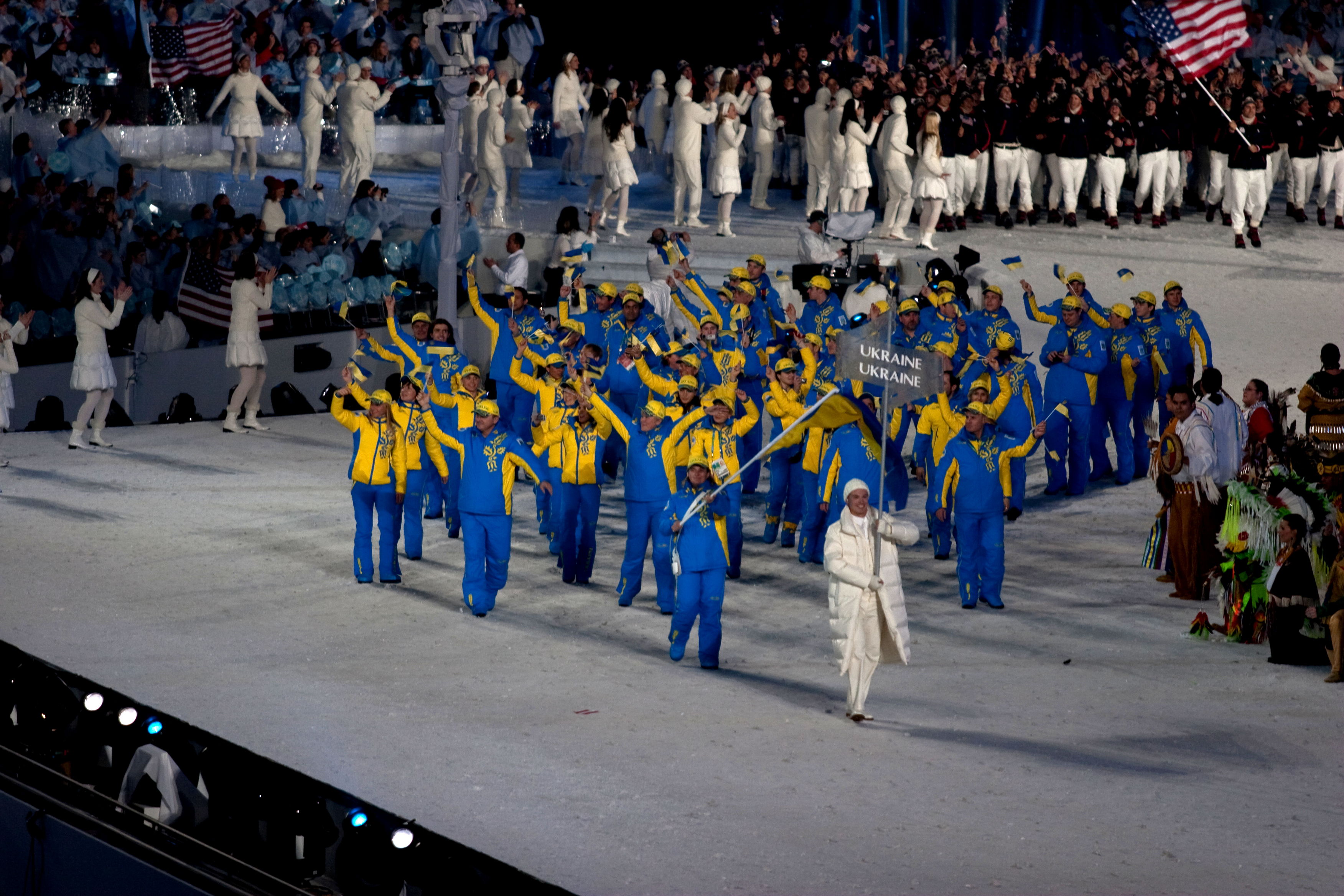 The athletes from the Ukraine entering the stadium at the opening ceremonies of the 2010 Winter Olympics, with Liliya Ludan carrying the national flag.